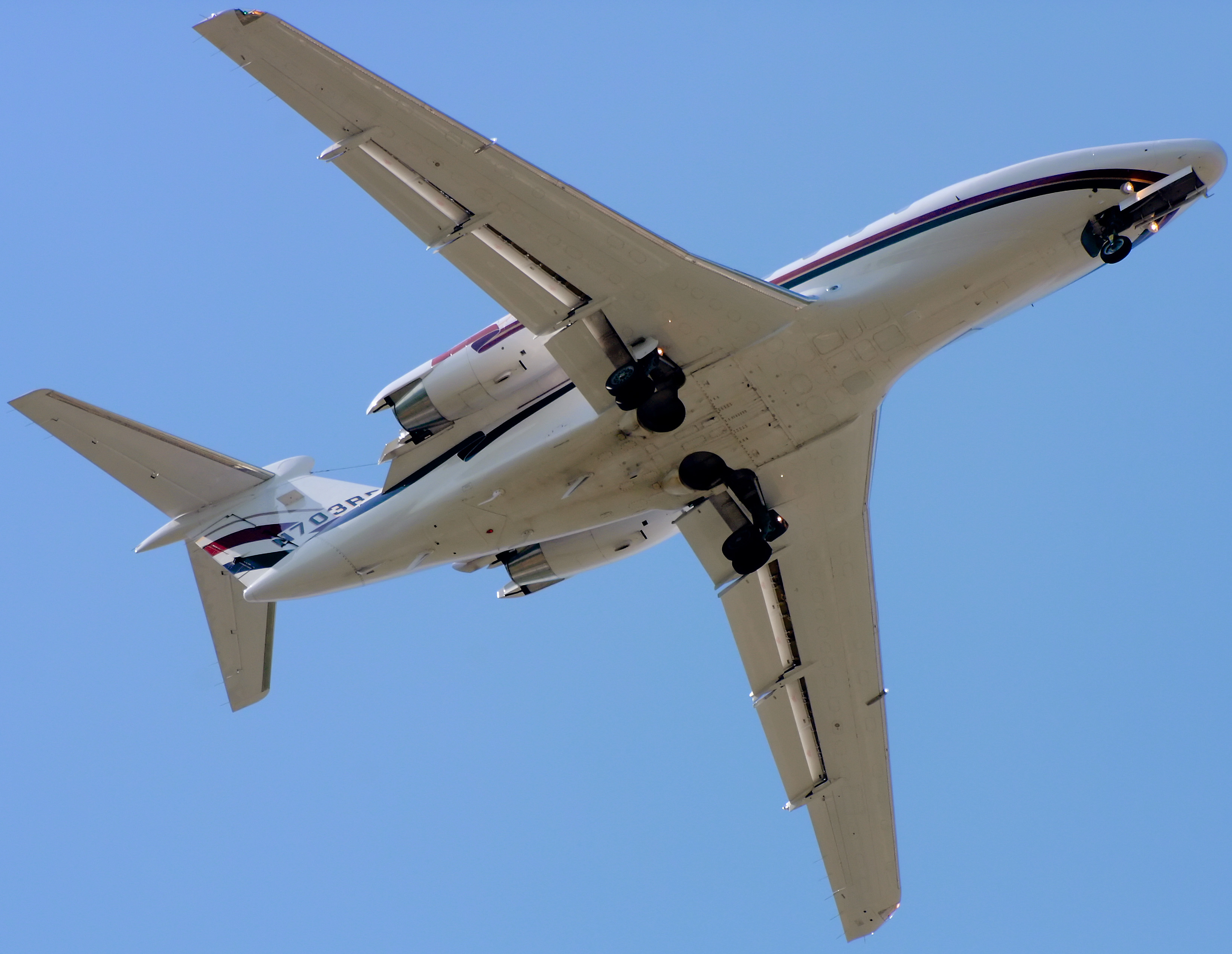 View Large ? Not extremely happy with the tight crop on this one, but he came over at a weird angle. Definitely appreciate being able to see all the details though, haha.